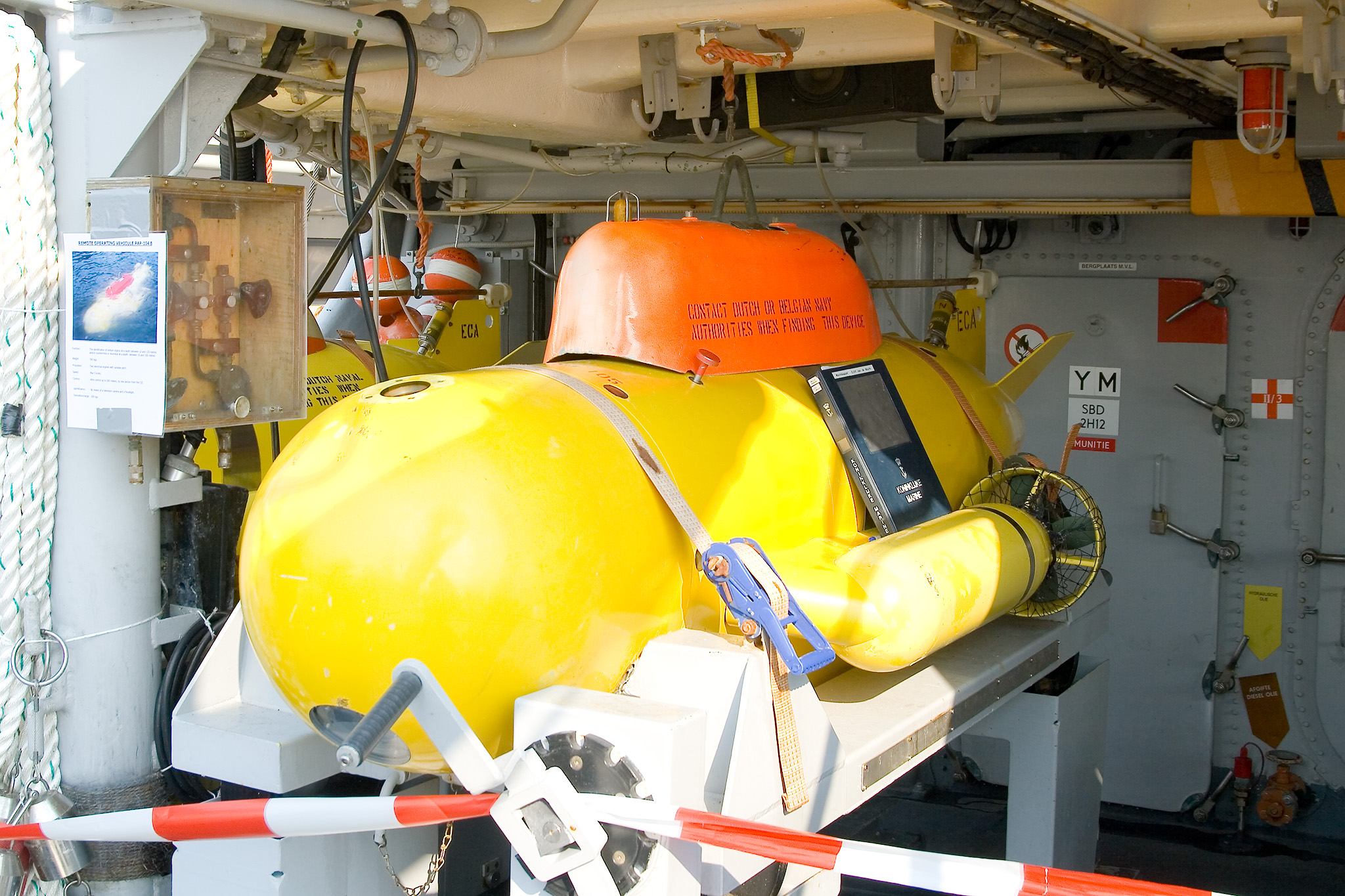 Remote operating vehicle (ROV) PAP-104 B of the Royal Netherlands Navy.